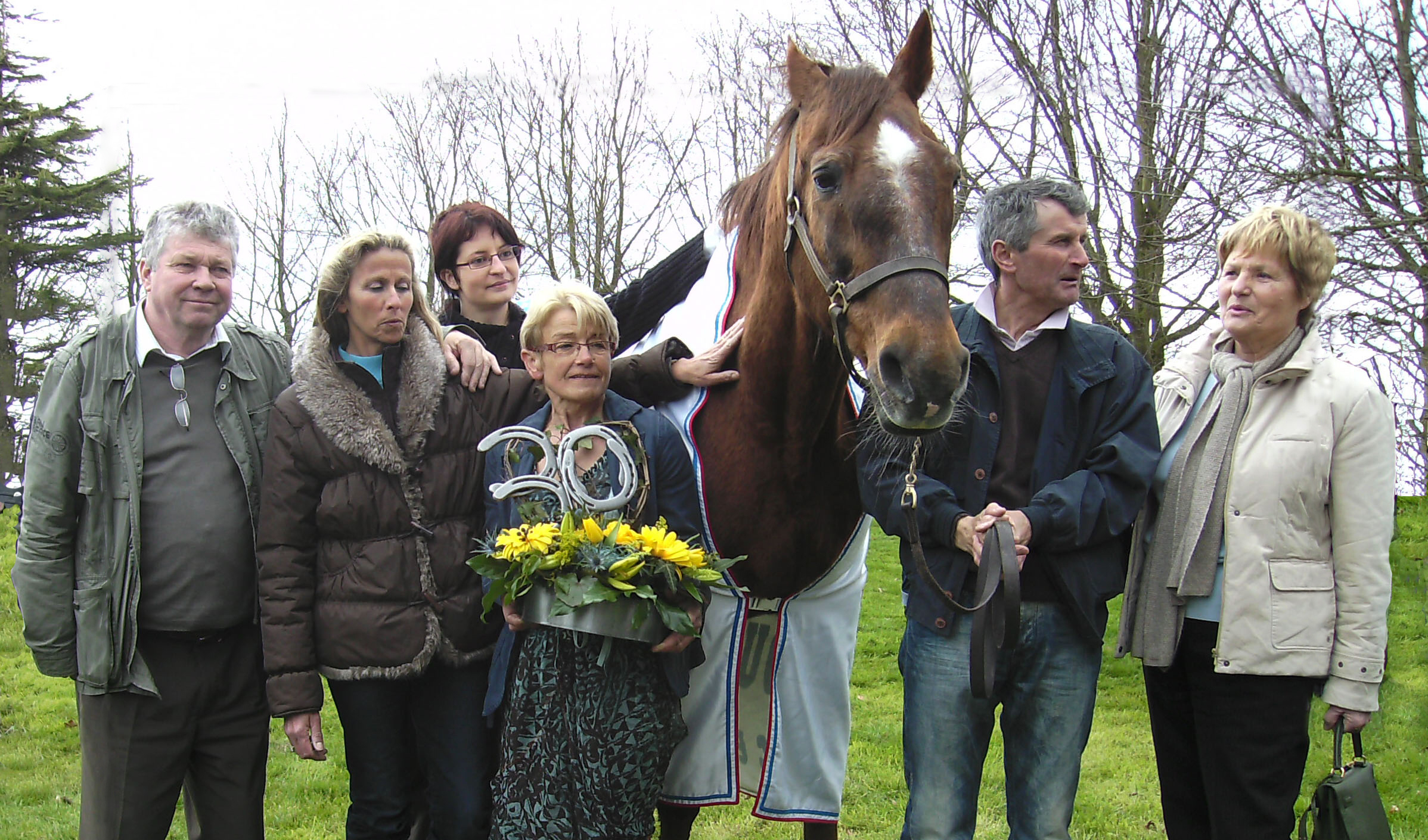 The group photo of Ourasi's birthday